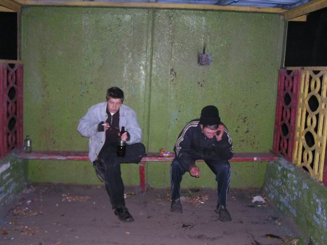 Gopnic, Subcultures, russia